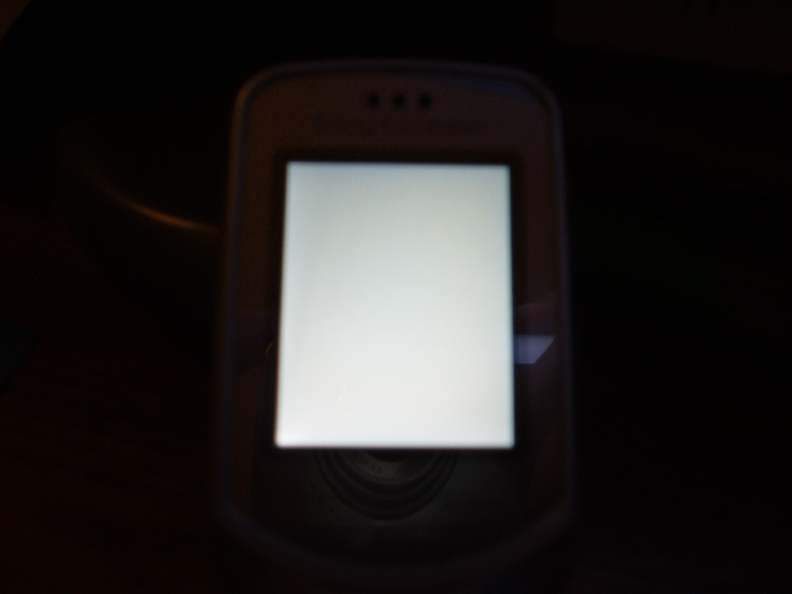 Location: West Melbourne, Florida. A Sony Ericsson W300i showing the WSOD.